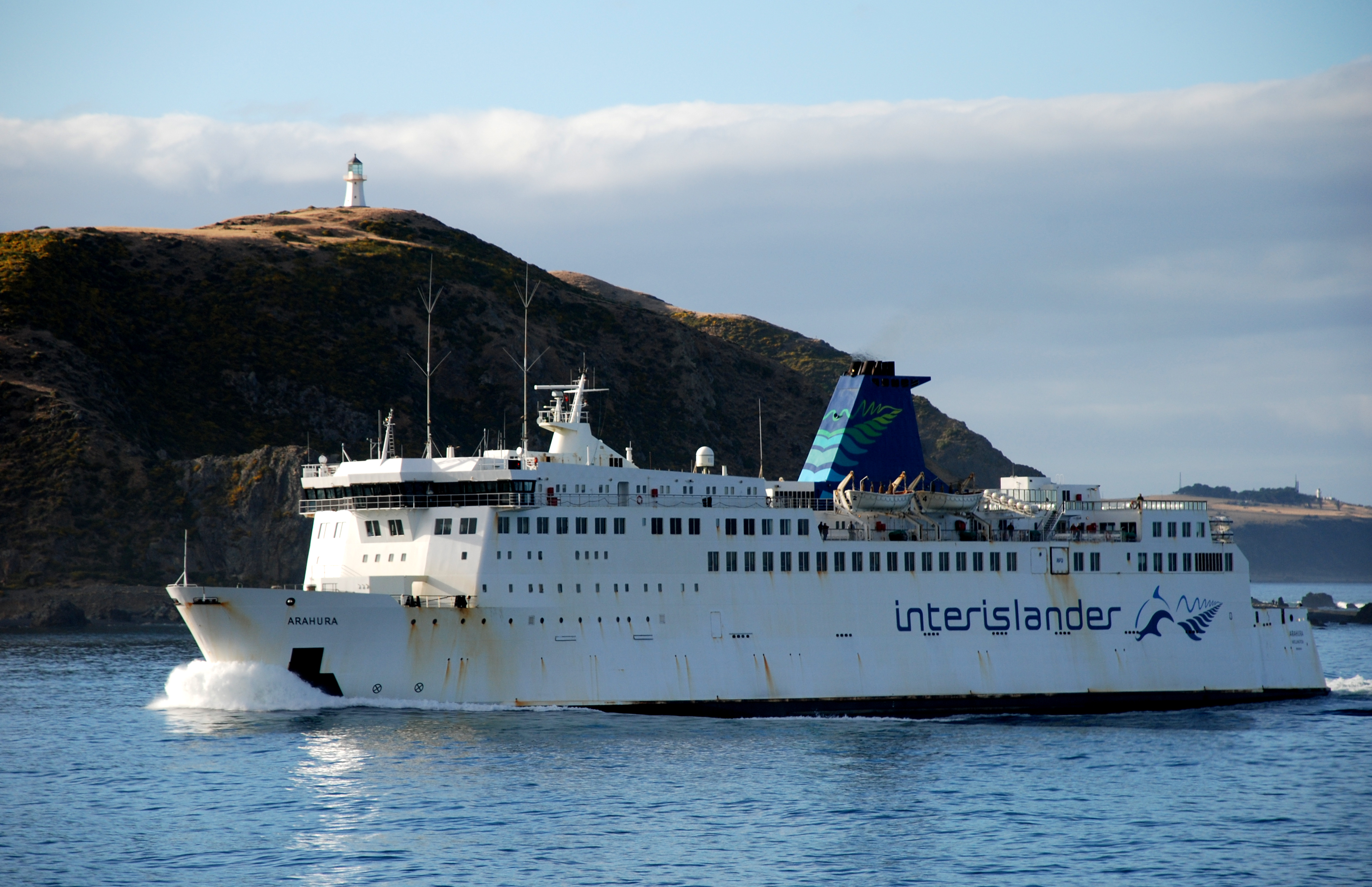 Interislander Arahura at Pencarrow Head, Wellington from the 'Santa Regina'